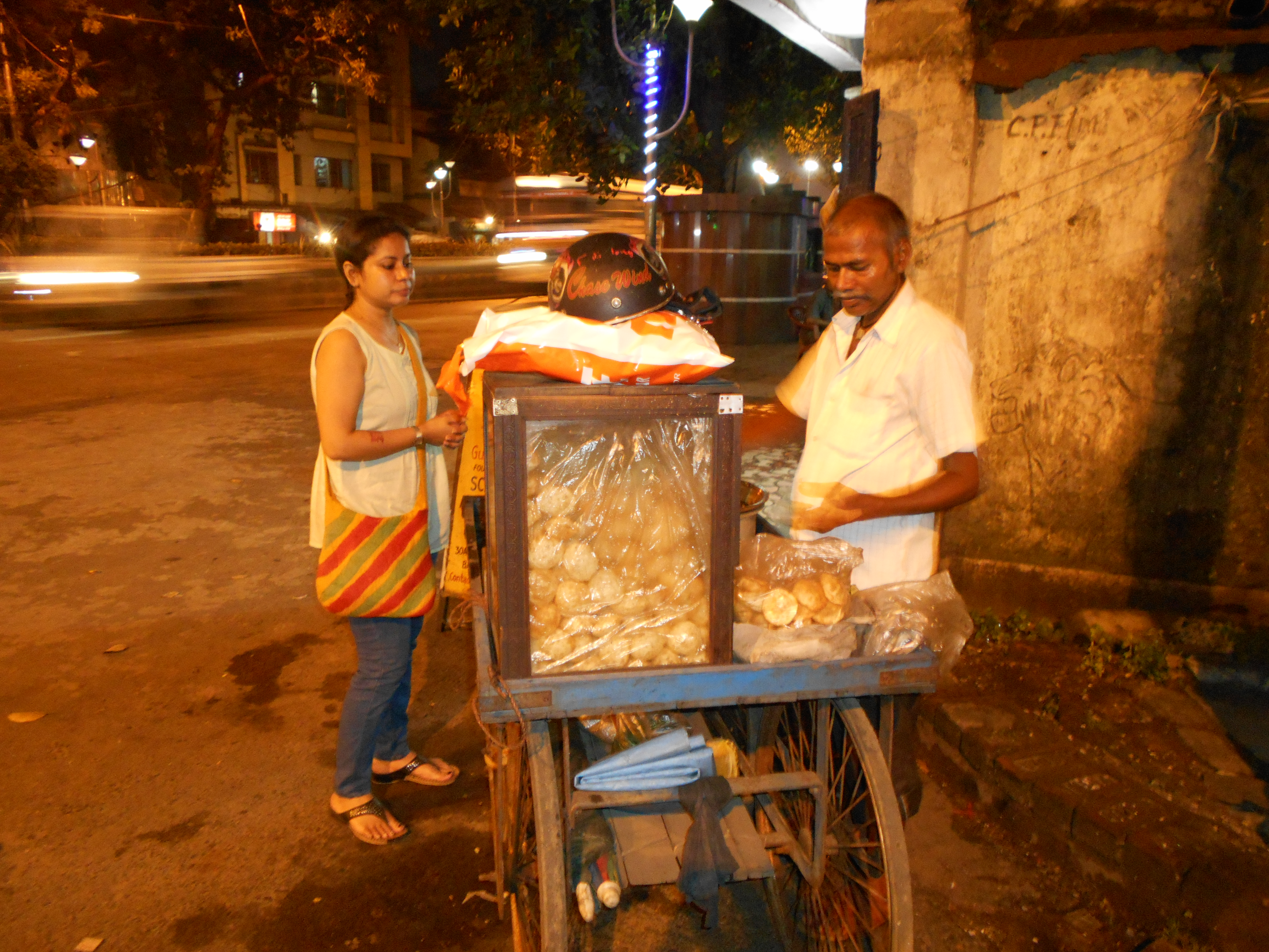 Fuchka or Panipuri Van for vending Fuchka in Kolkata